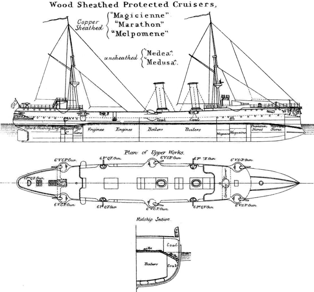 Right elevation, deck plan and hull cross-section diagrams of British Marathon class cruisers of 1888.